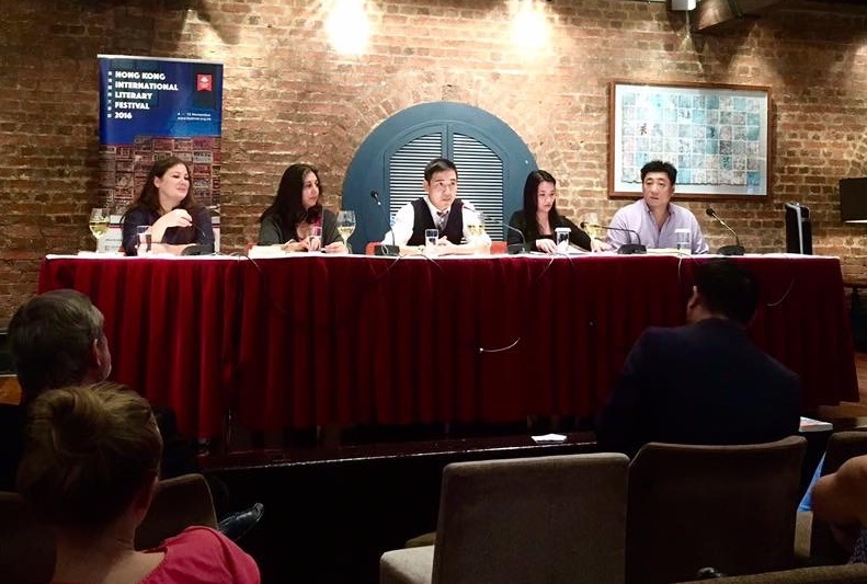 Launch photo